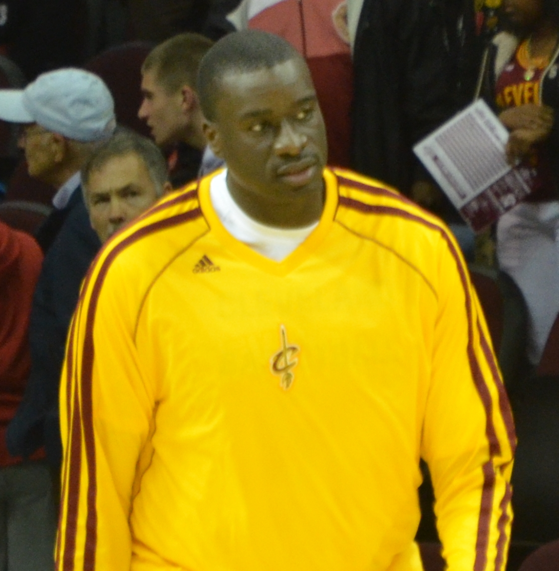 DeSagana Diop during preseason with the Cleveland Cavaliers in 2013